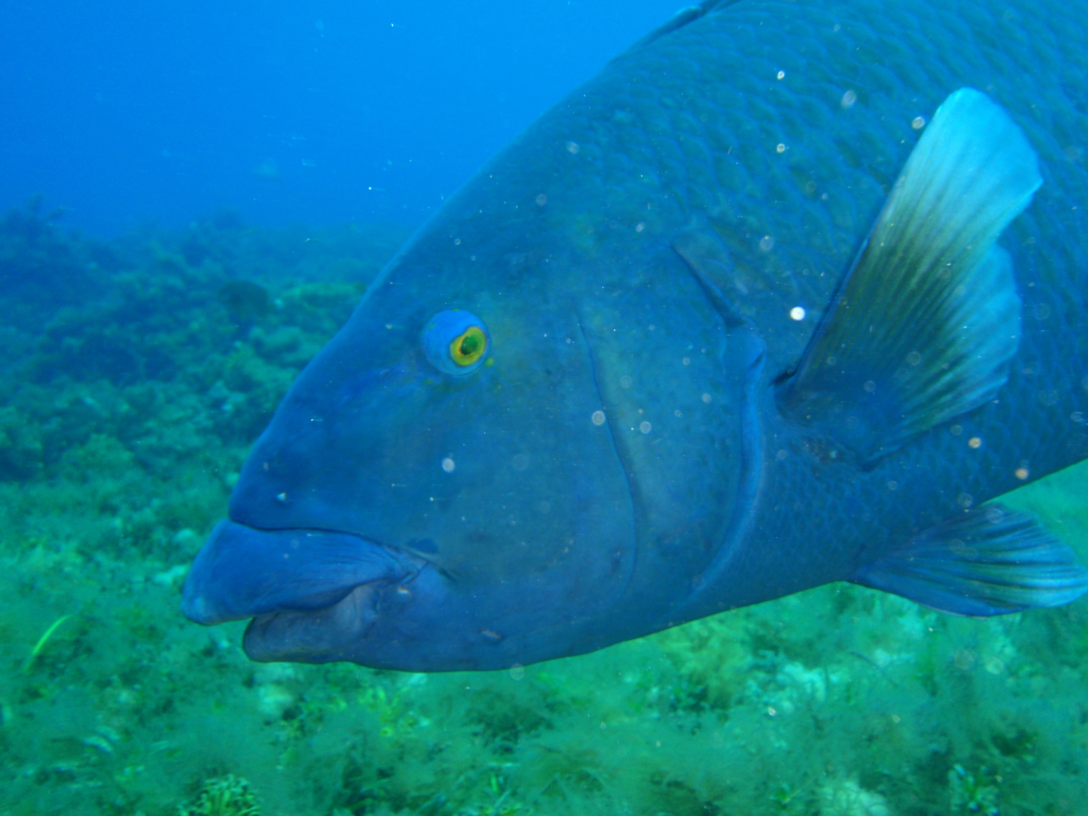 Western blue groper Achoerodus gouldii at North west bay, Mondrain Island, Western Australia